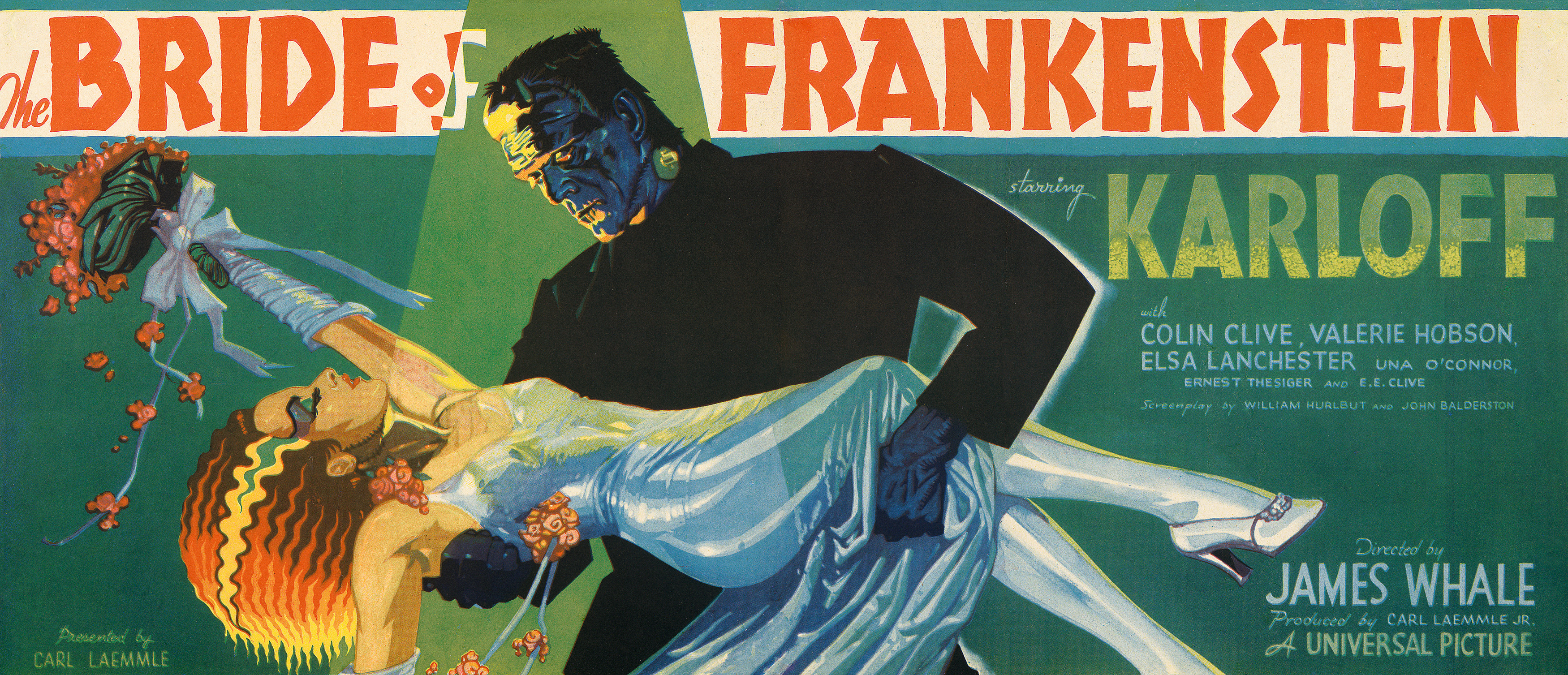 Promotional illustration for the 1935 film Bride of Frankenstein. This design is described as a "pictorial snipe" in the 2004 book Horror Poster Art by Tony Nourmand and Graham Marsh; a "snipe" is a piece of paper meant to be attached to another, larger poster, often in a designated blank space or to cover up an error (see "What is a Movie Poster 'Snipe'?" at ). This illustration is owned by Metallica guitarist Kirk Hammett as of 2017.